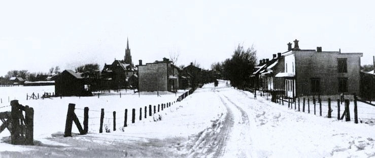 Photograph, Rue de la Station, Contrecoeur, QC, about 1910, Anonymous, Silver salts on paper mounted on card - Gelatin silver process - 6 x 11 cm